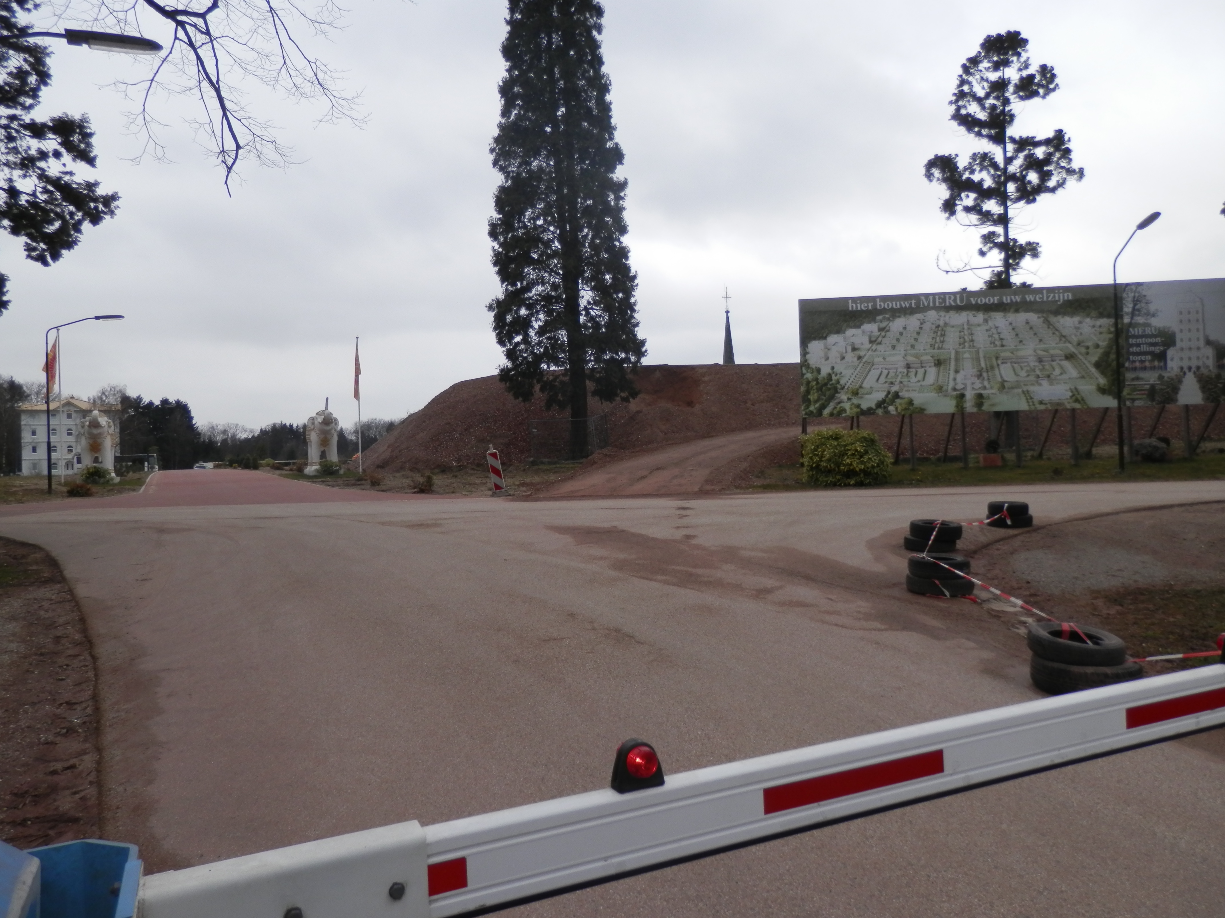 Kolleg St. Ludwig / Meru University Vlodrop/Roerdalen/NL